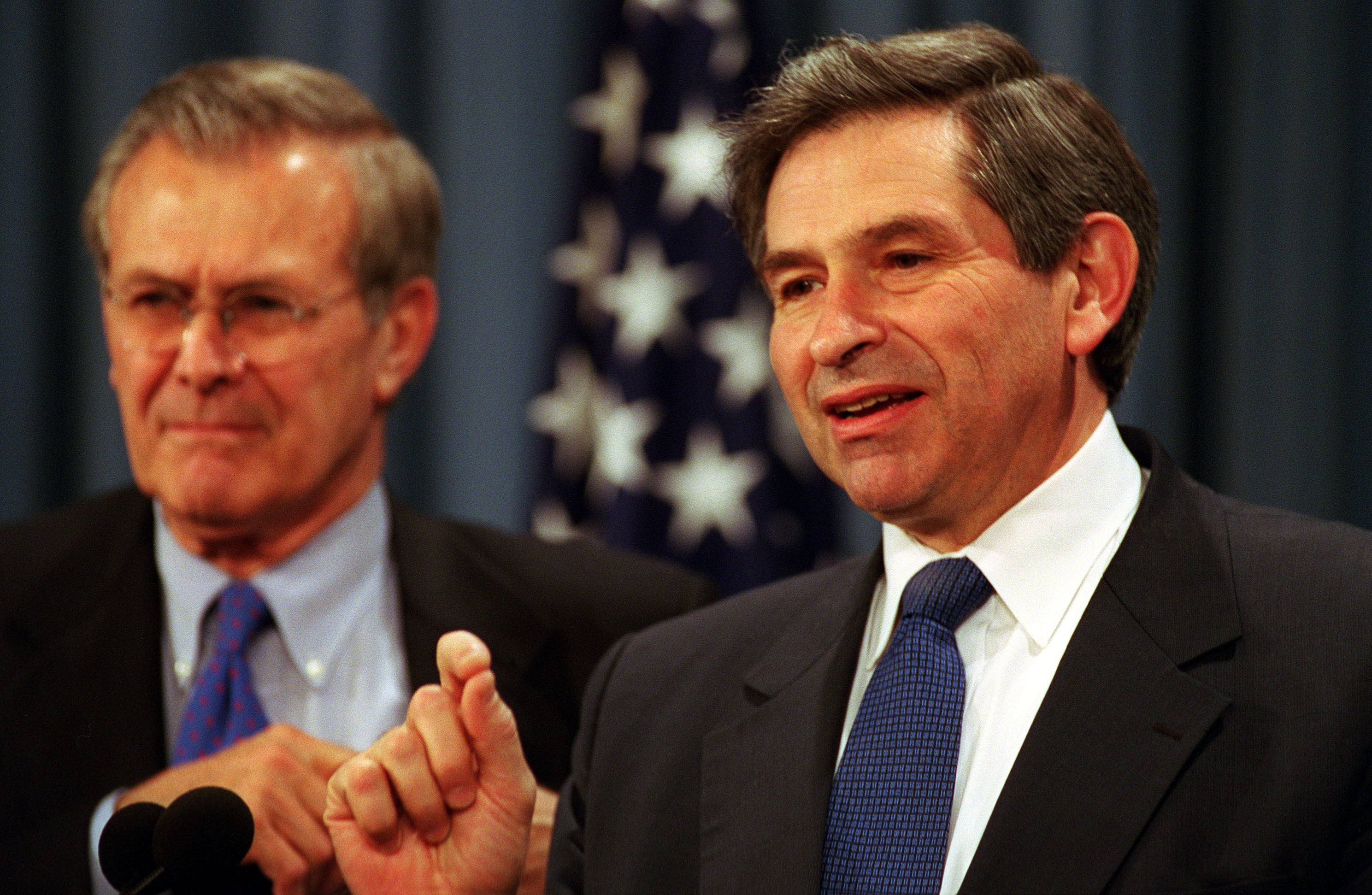 The newly confirmed Deputy Secretary of Defense Paul Wolfowitz (right) emphasizes a point as he talks to reporters in the Pentagon on March 1, 2001. Secretary of Defense Donald Rumsfeld (left) introduced Wolfowitz to reporters during a Pentagon news briefing.